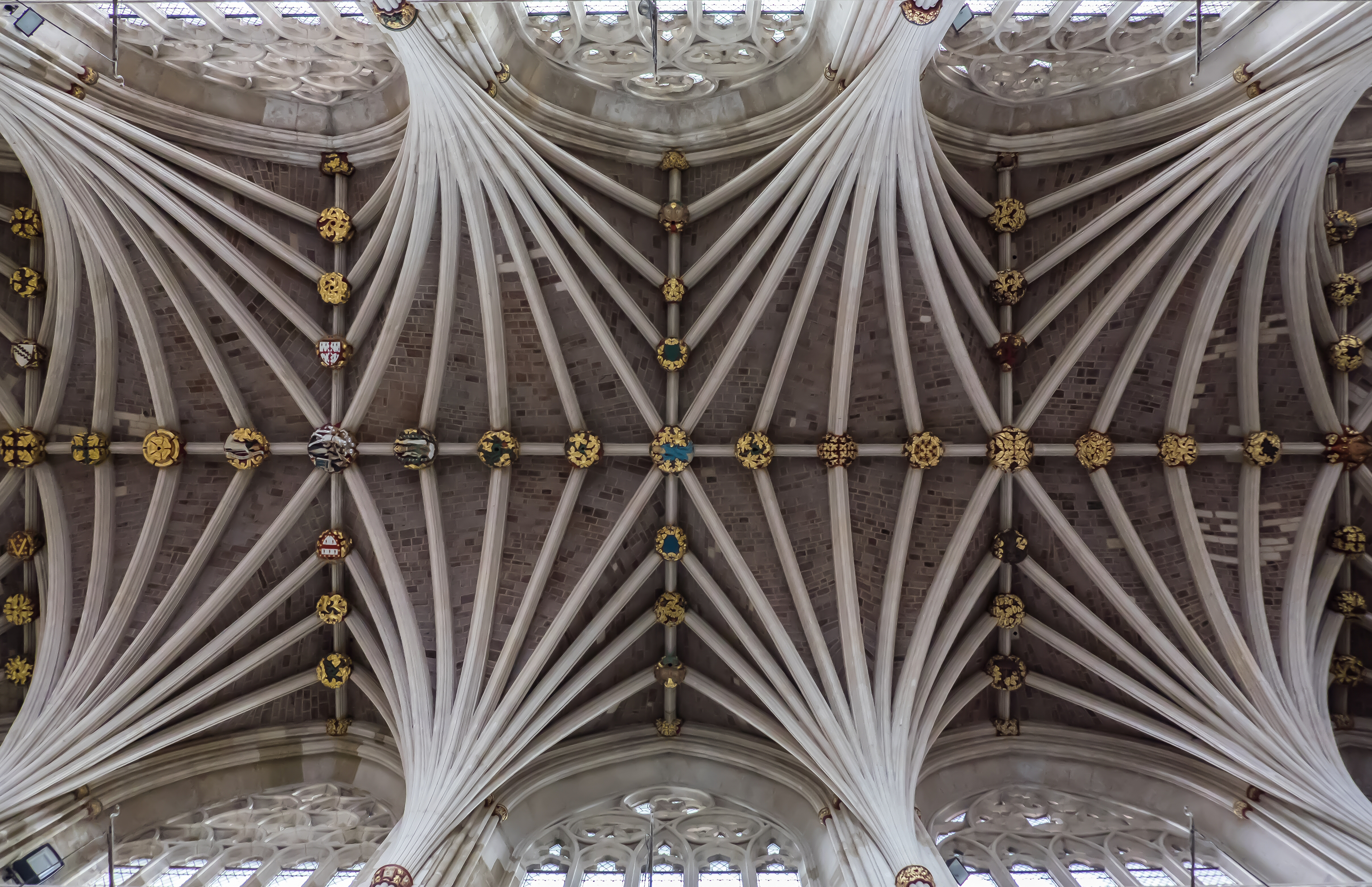 The vauled ceiling of the nave of Exeter Cathedral